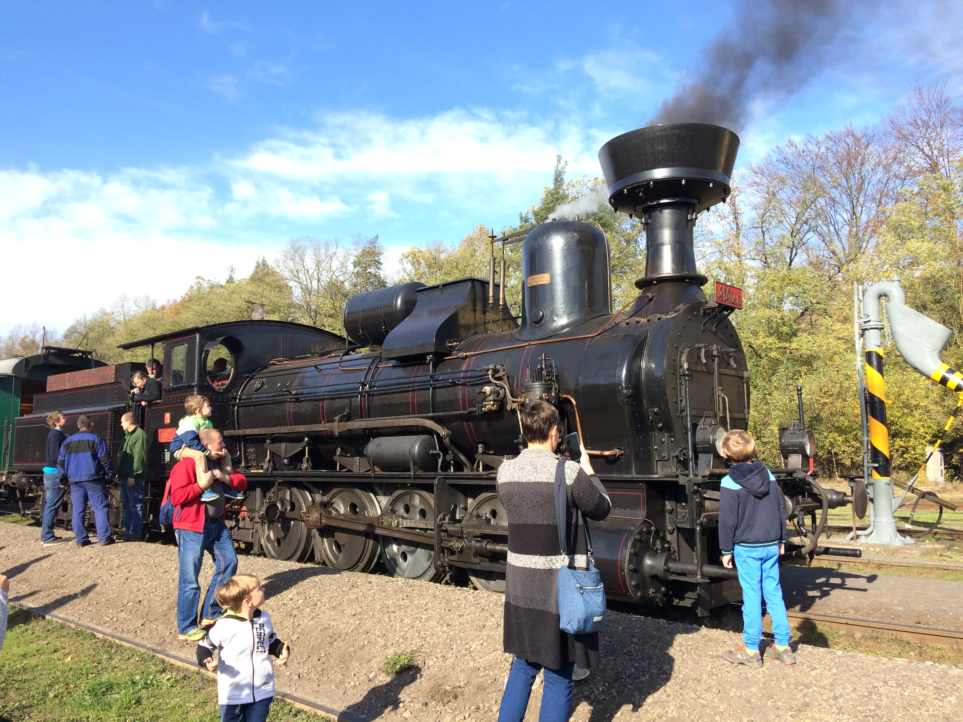 KkStB 73.368 (ČSD 414.096) with "nostalgic" passenger train operated by České dráhy in Lužná u Rakovníka